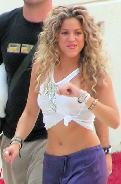 Colombian singer Shakira at the Wal-Mart 2005 Shareholders meeting.